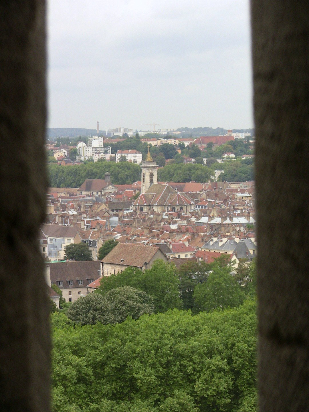 View of the old center of Besançon, from the fort Beauregard.